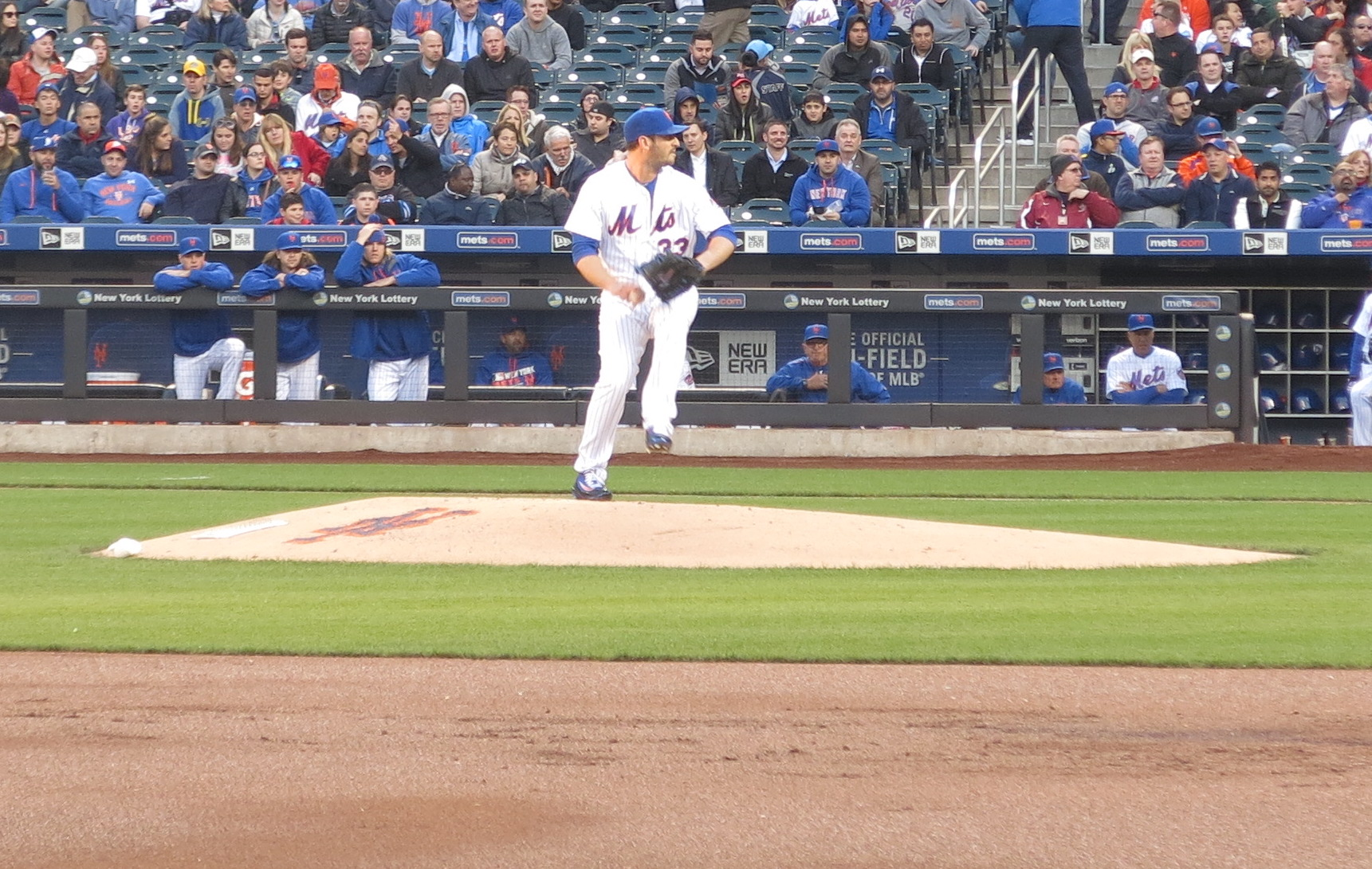 Matt Harvey pitches for the New York Mets, April 27, 2016.